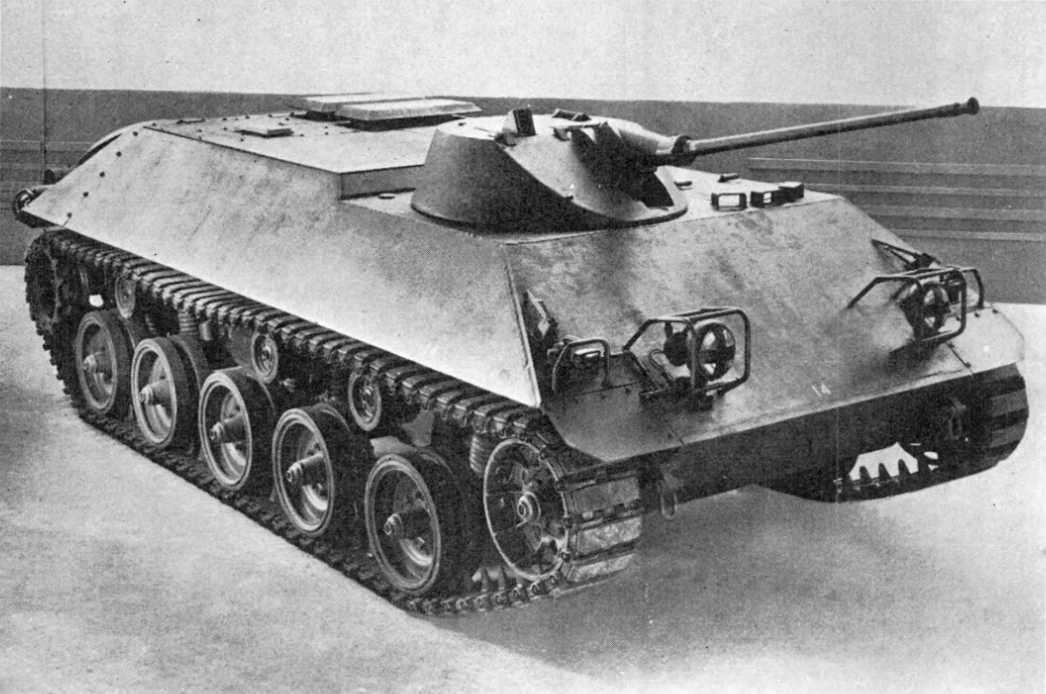 HS30 oblique view